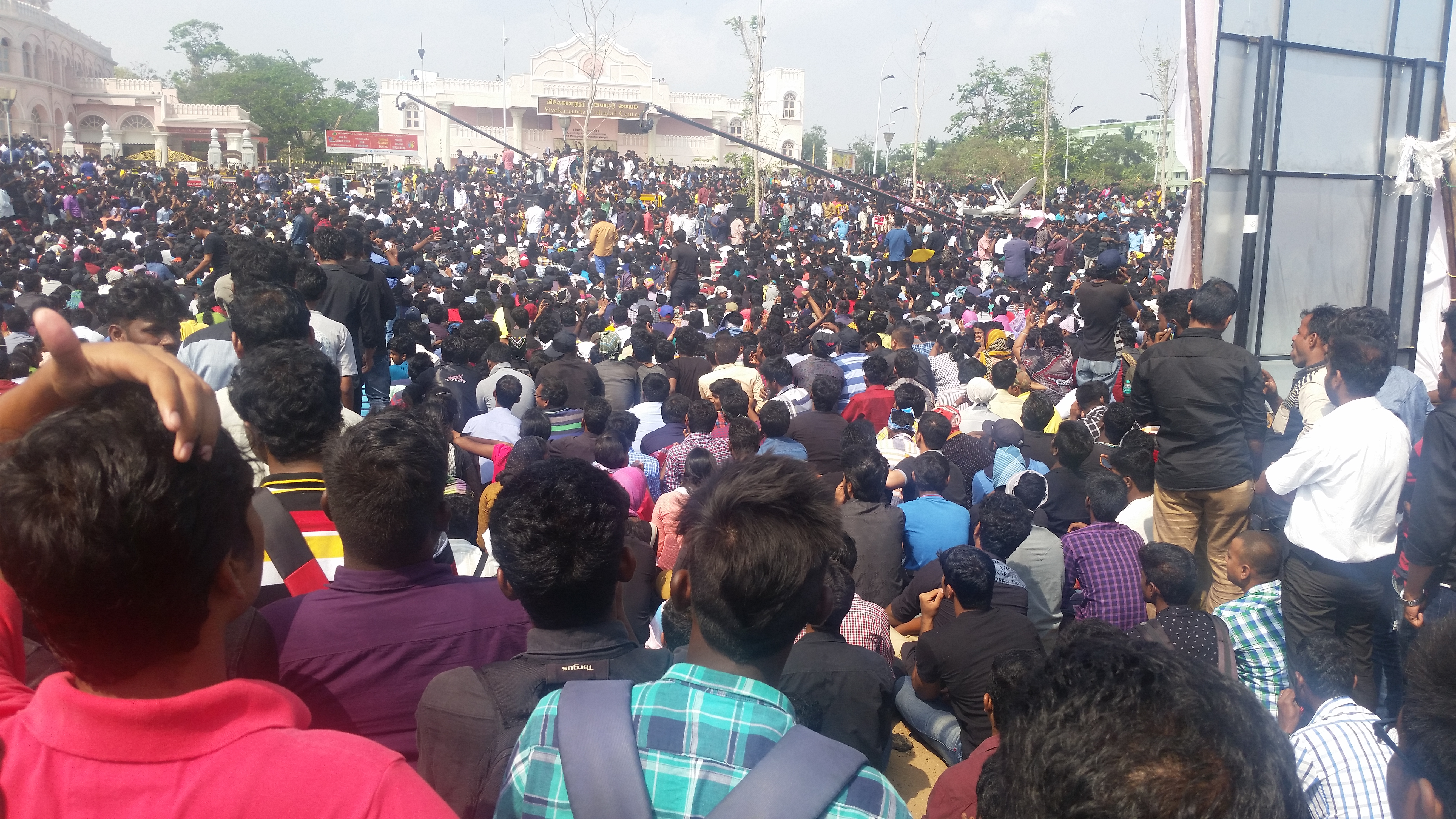 Lakhs of protesters showing solidarity for Jallikattu